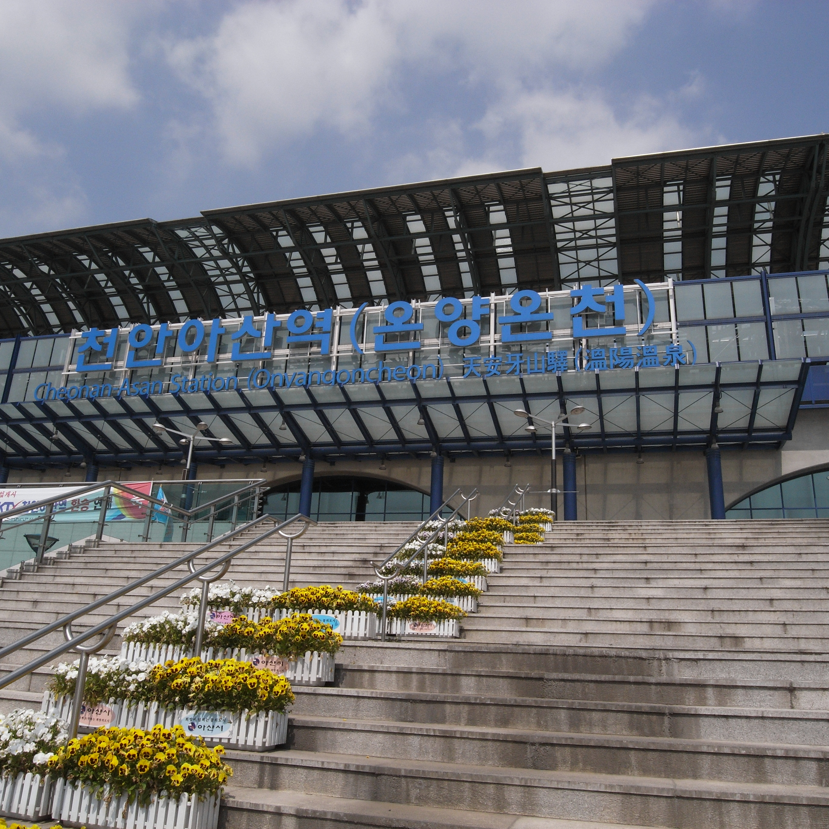 Cheonan-Asan Station